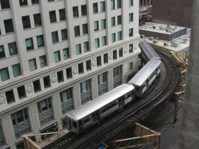 rounding the southwest corner of the Loop, around Burnham's huge Insurance Exchange